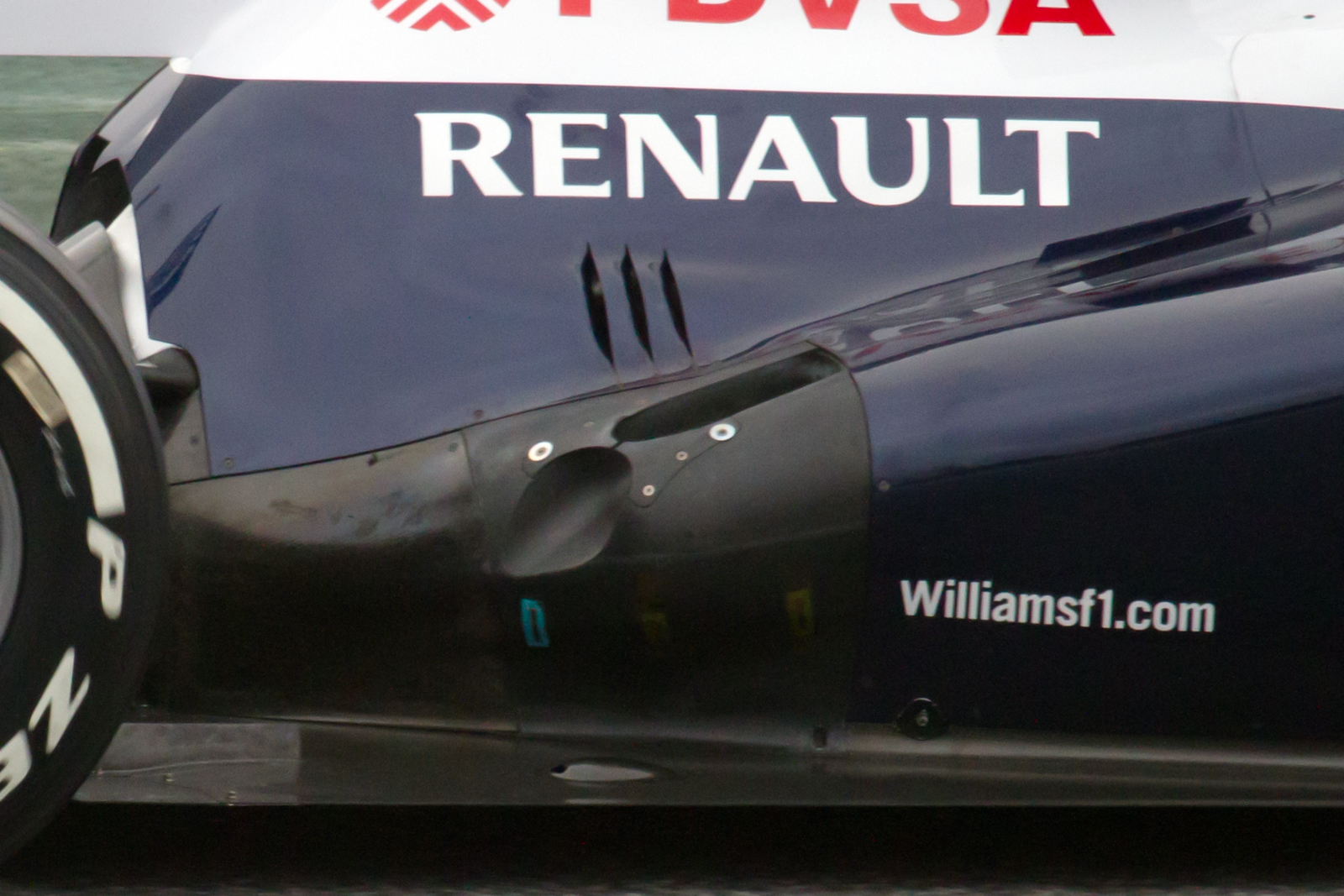 Formula One 2013 Catalonia test (19-22 February): Williams FW35's exhaust channels